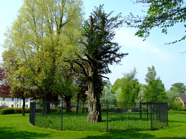 The Wallace Monument, Elderslie